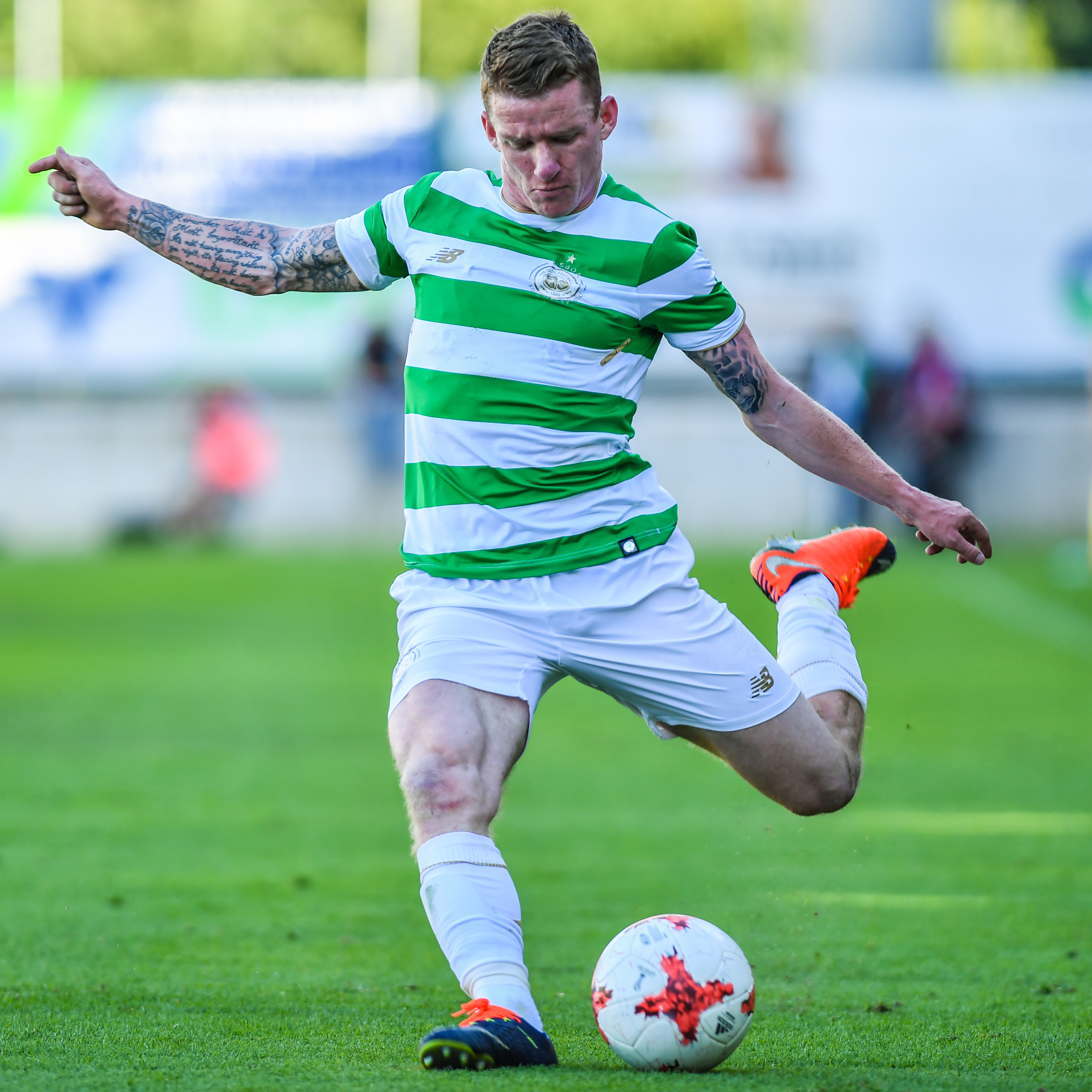 1/7/2017, Amstetten, Austria, sports, soccer, Tipico Fussball Bundesliga - preparation match SK Rapid Wien vs Celtic Glasgow. Image shows Jonny Hayes (Celtic FC).